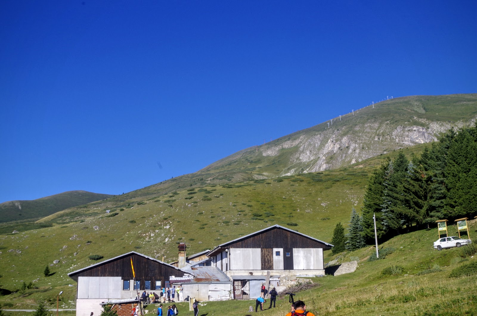 Mountain hut Smreka on Shar Mountain